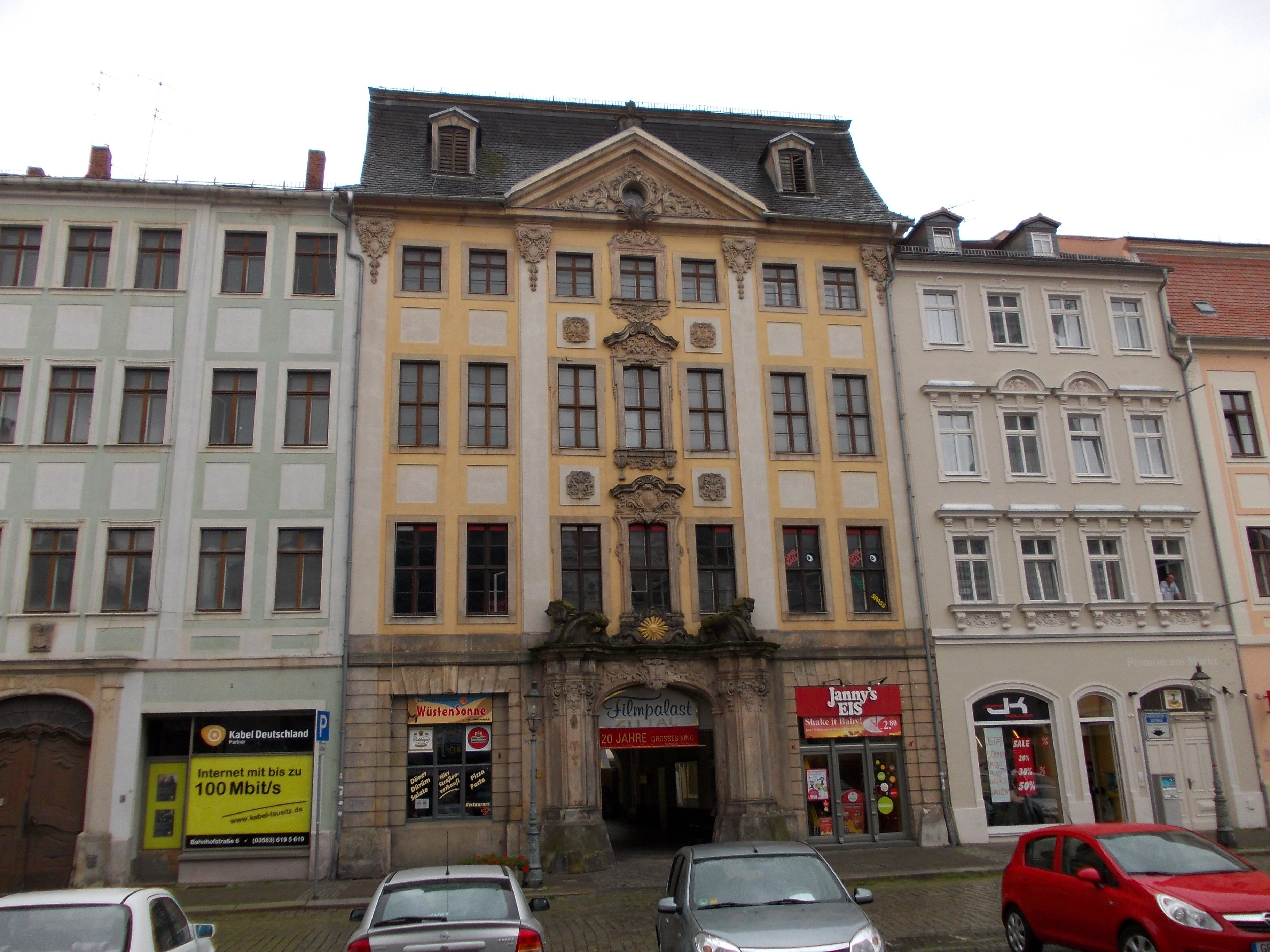 Former Golden Sun Inn (about 1710) at the Zittau market square (Görlitz district, Saxony)